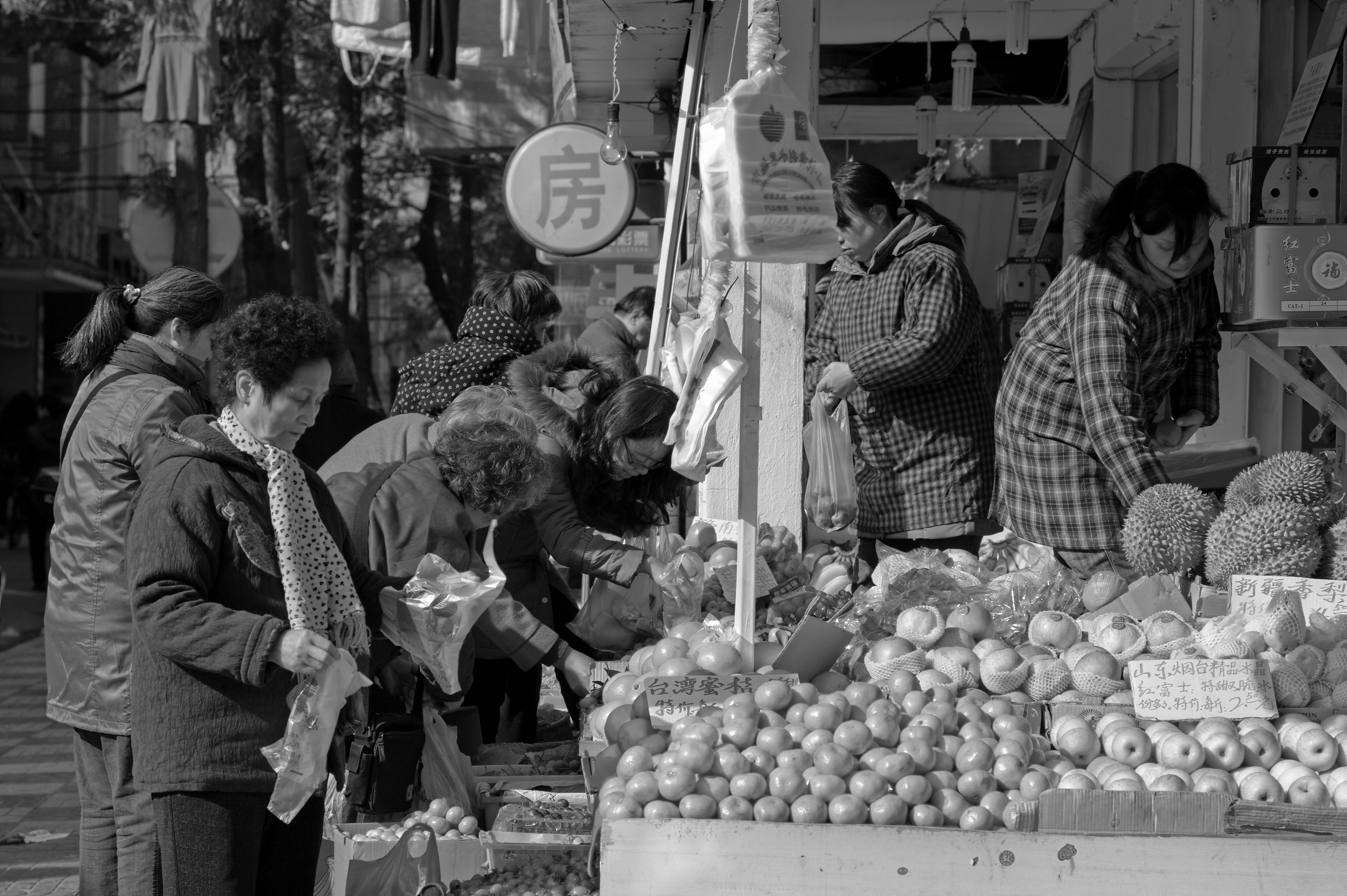 Some old women are buying fruits in a shop. Nanjing, China.